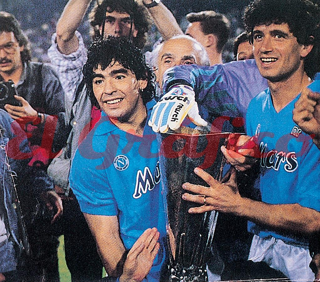 Diego Maradona and players o SSC Napoli celebrating the UEFA Cup title after defeating VfB Stuttgart by penalty shoot-out.